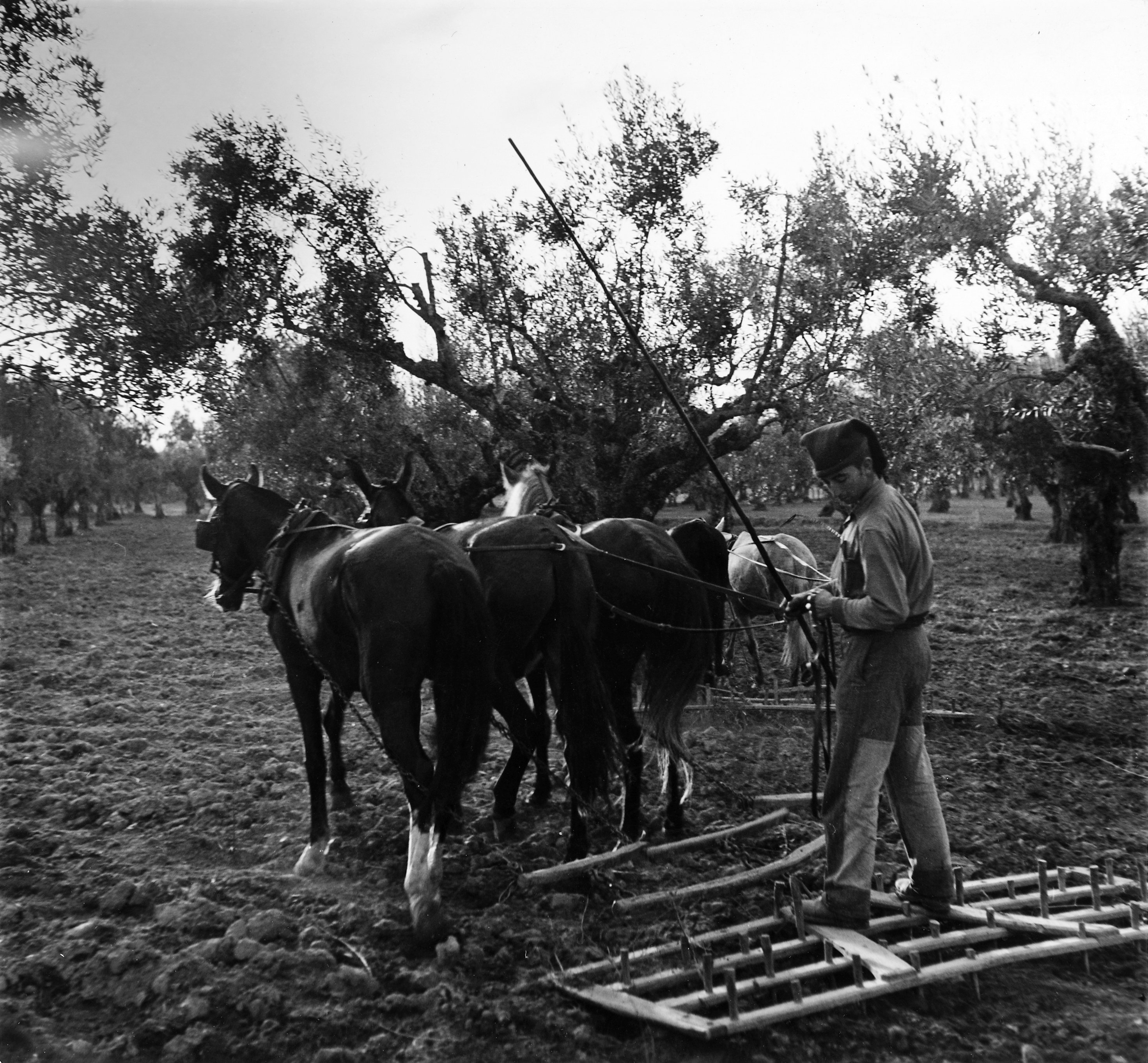 In Barquinha, an olive grove, and the land being prepared for wheat planting. The land is hard, and the crude harrow needs three horses to pull it in order to dig deep enough to prepare the ground